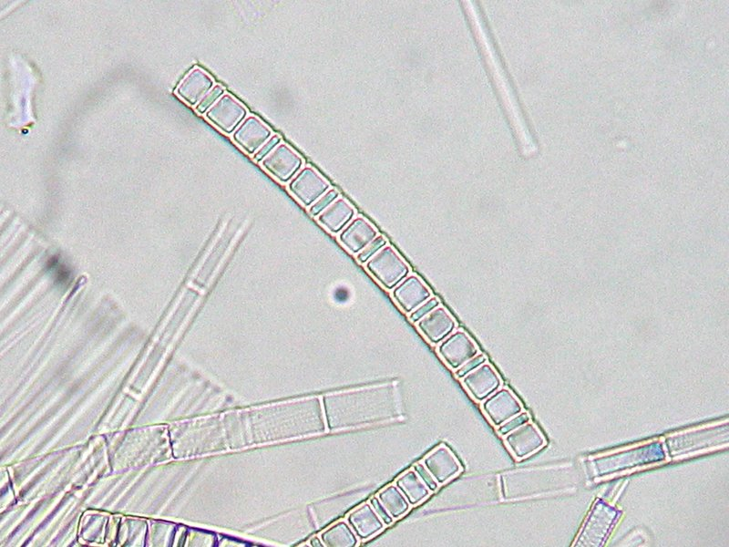 This work is free and may be used by anyone for any purpose. If you wish to use this content, you do not need to request permission as long as you follow any licensing requirements mentioned on this page.